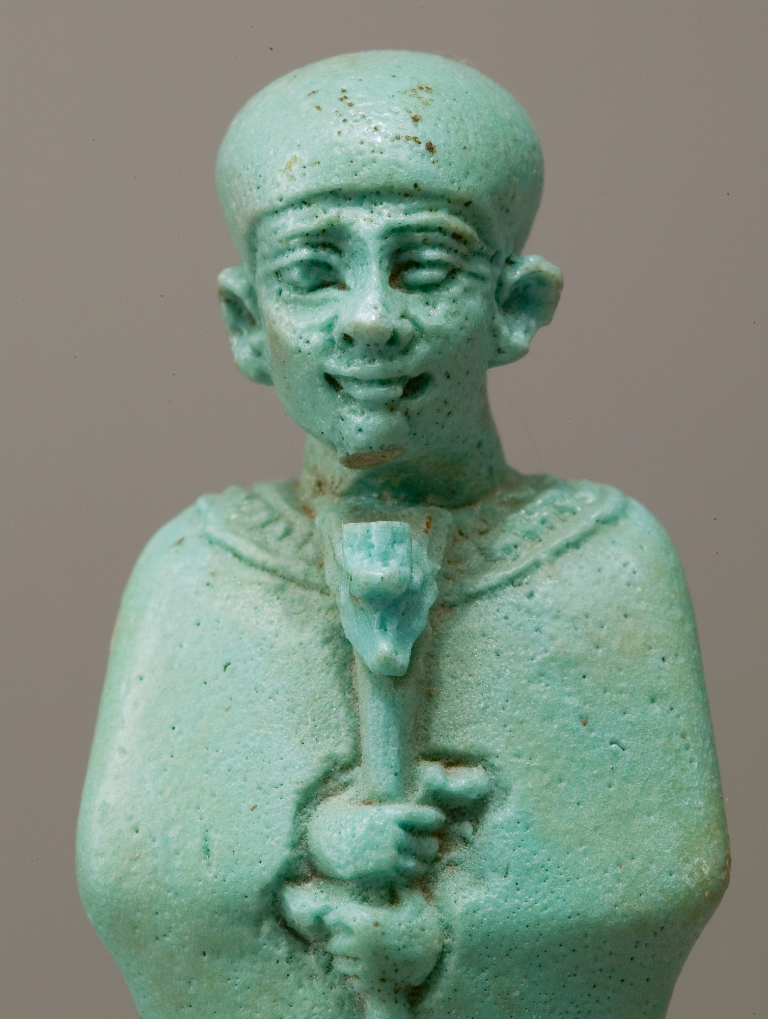 Statuette, Ptah